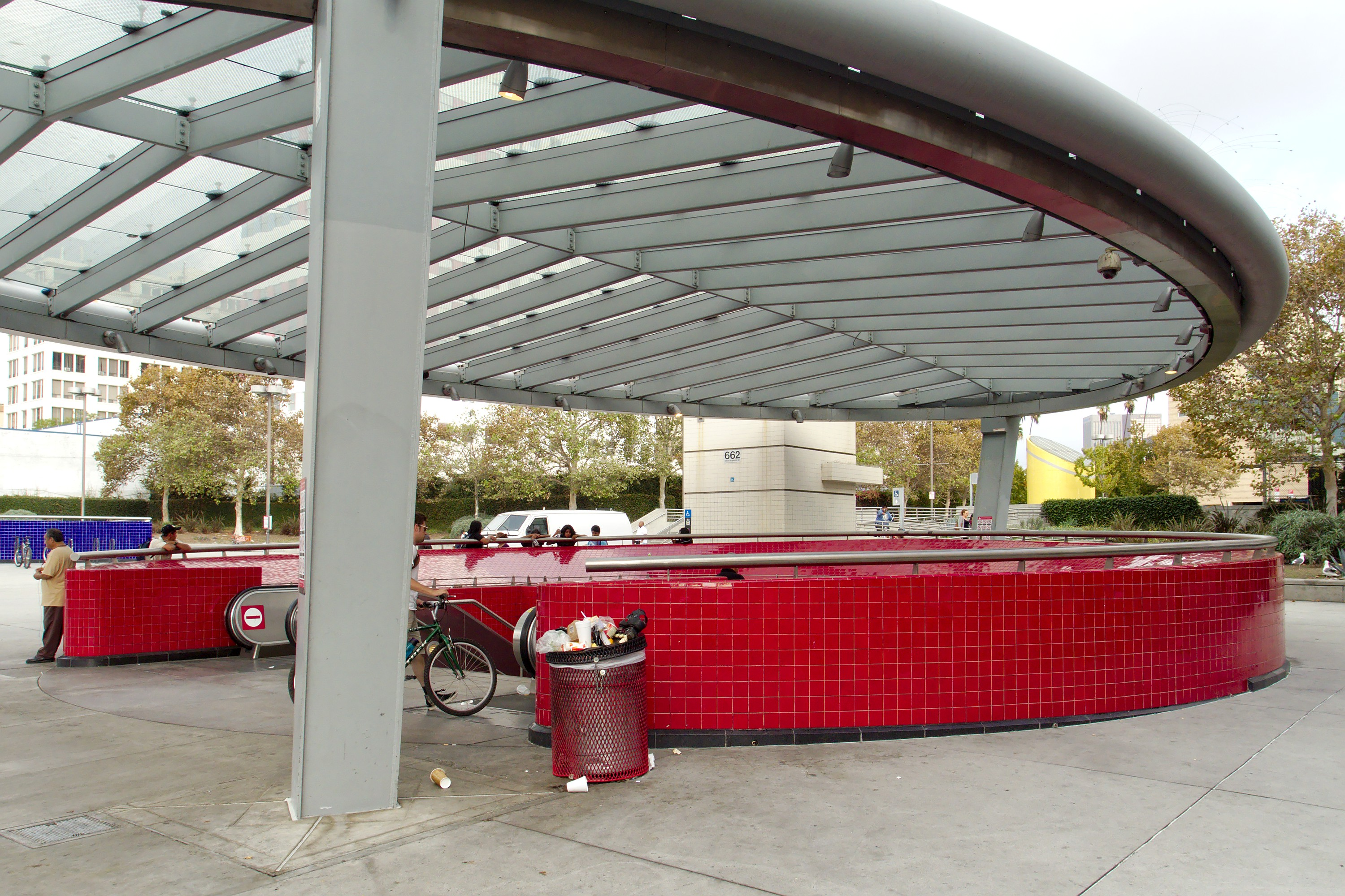 Entrance to Westlake/MacArthur Park Metro station on Alvarado Street.